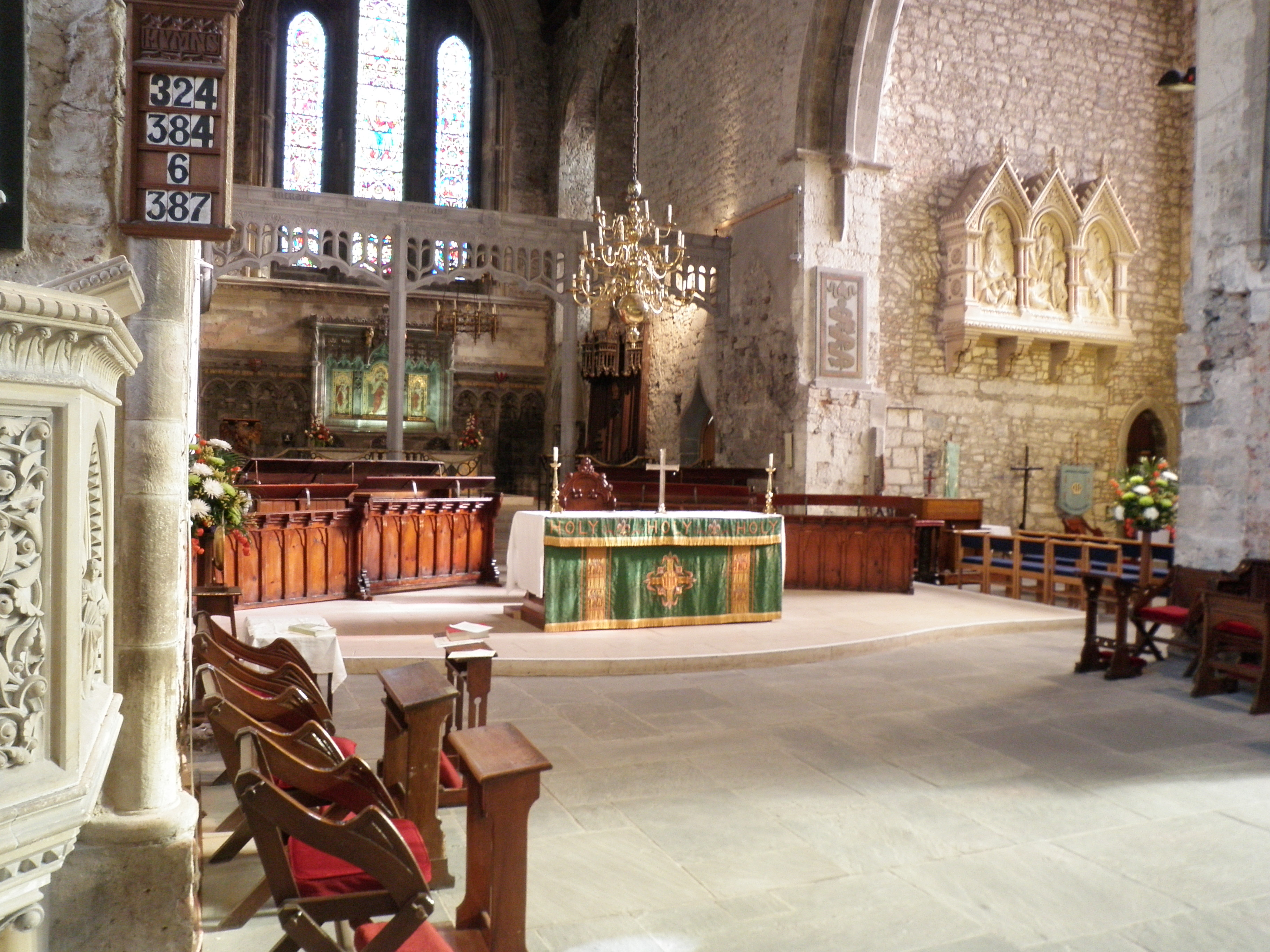 View of the altar at St. Mary's Cathedral, Limerick, Ireland, right before a Church of Ireland Sunday morning service.